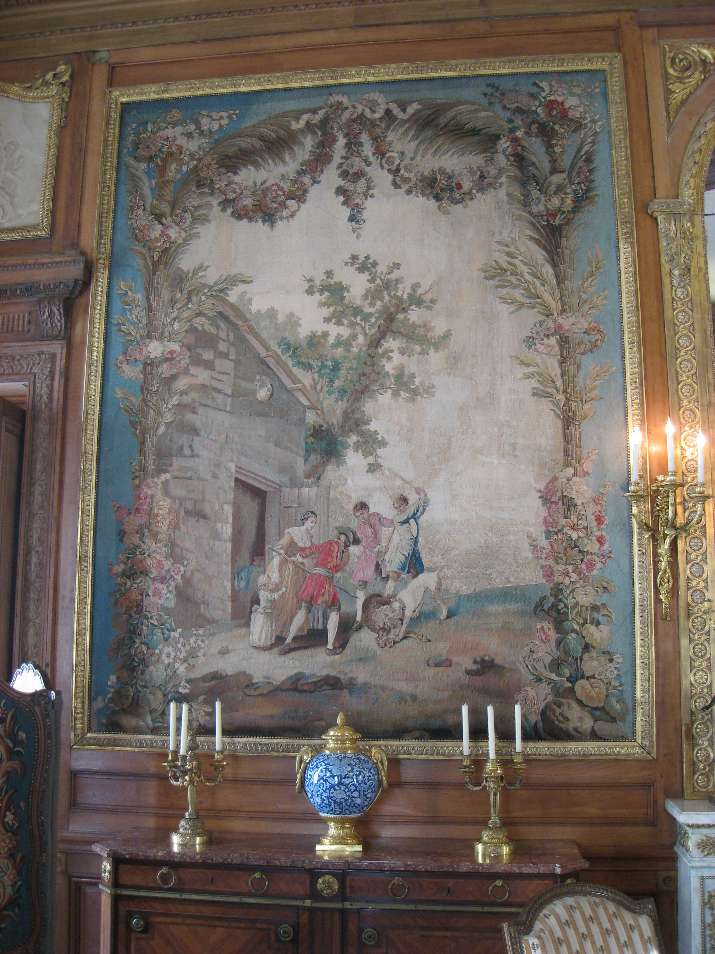 Musée Nissim de Camondo, Paris, France - Aubusson tapestry, after Jean-Baptiste Oudry - La Fontaine's fable of "The lion in love" (Le lion amoureux), circa 1775-1780. The original work is old enough so that copyright (if any) has long since expired. The museum imposed no restrictions on photography (except prohibiting flash) in writing and when I explicitly asked; thus the original image appears free of copyright restrictions.